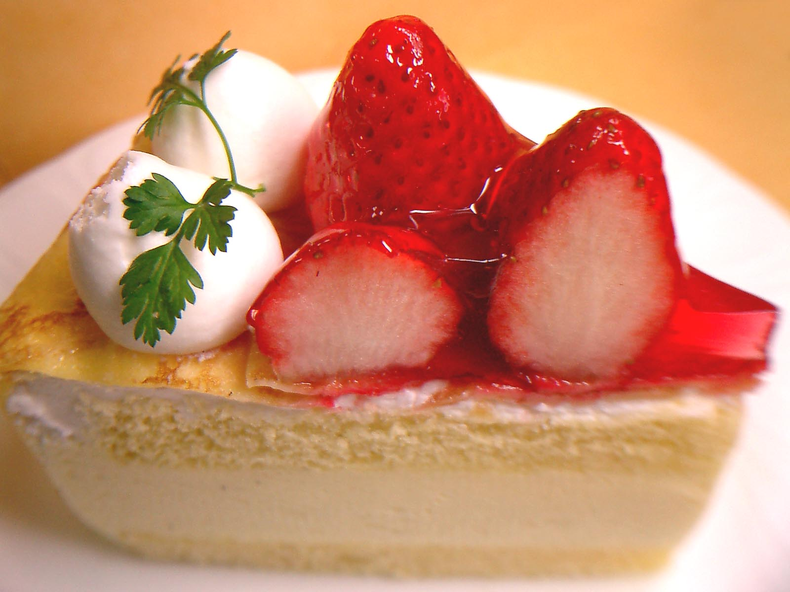 Strawberry crapeshortcake